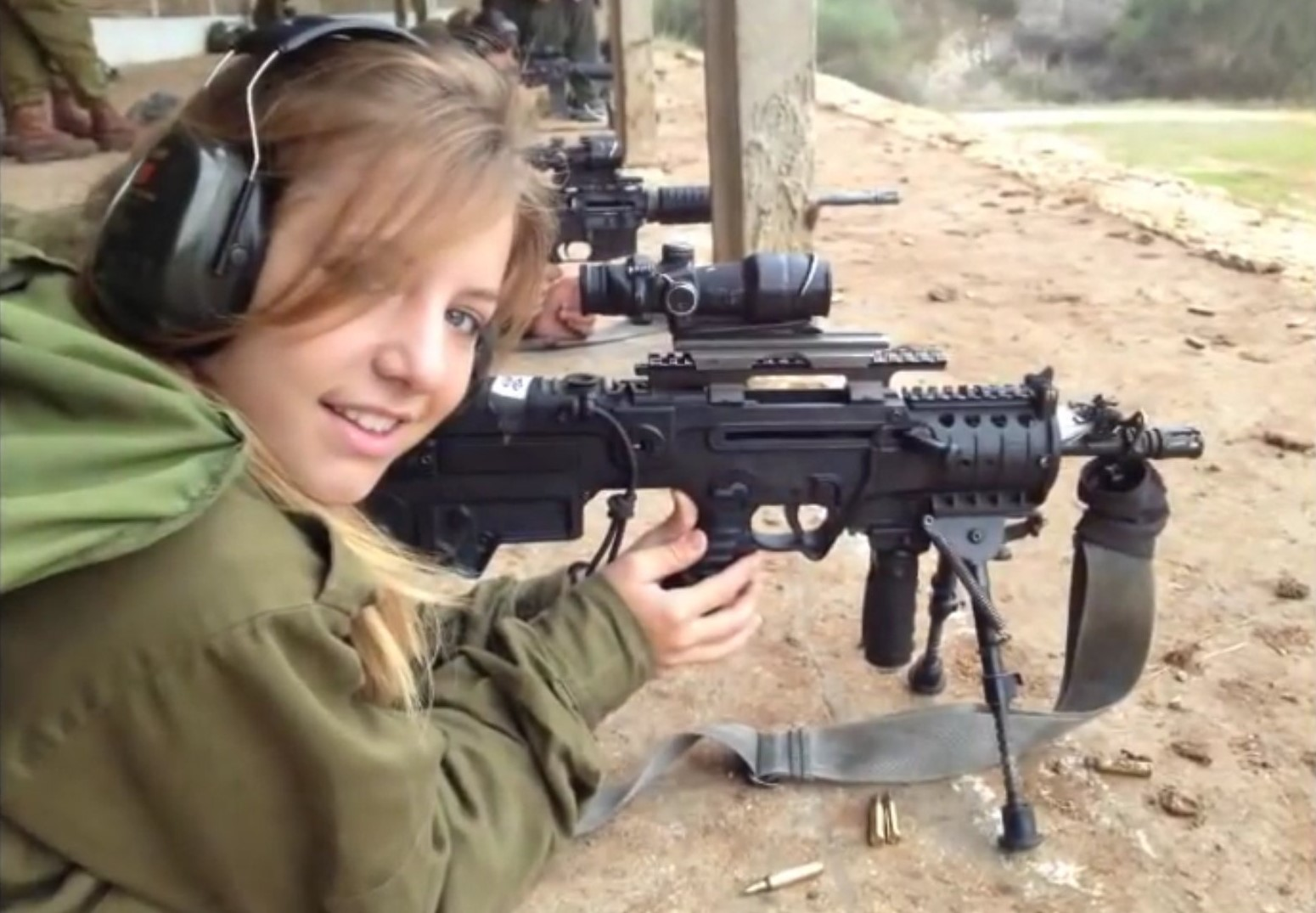 Special Warrant officer course in Israel Defense Forces